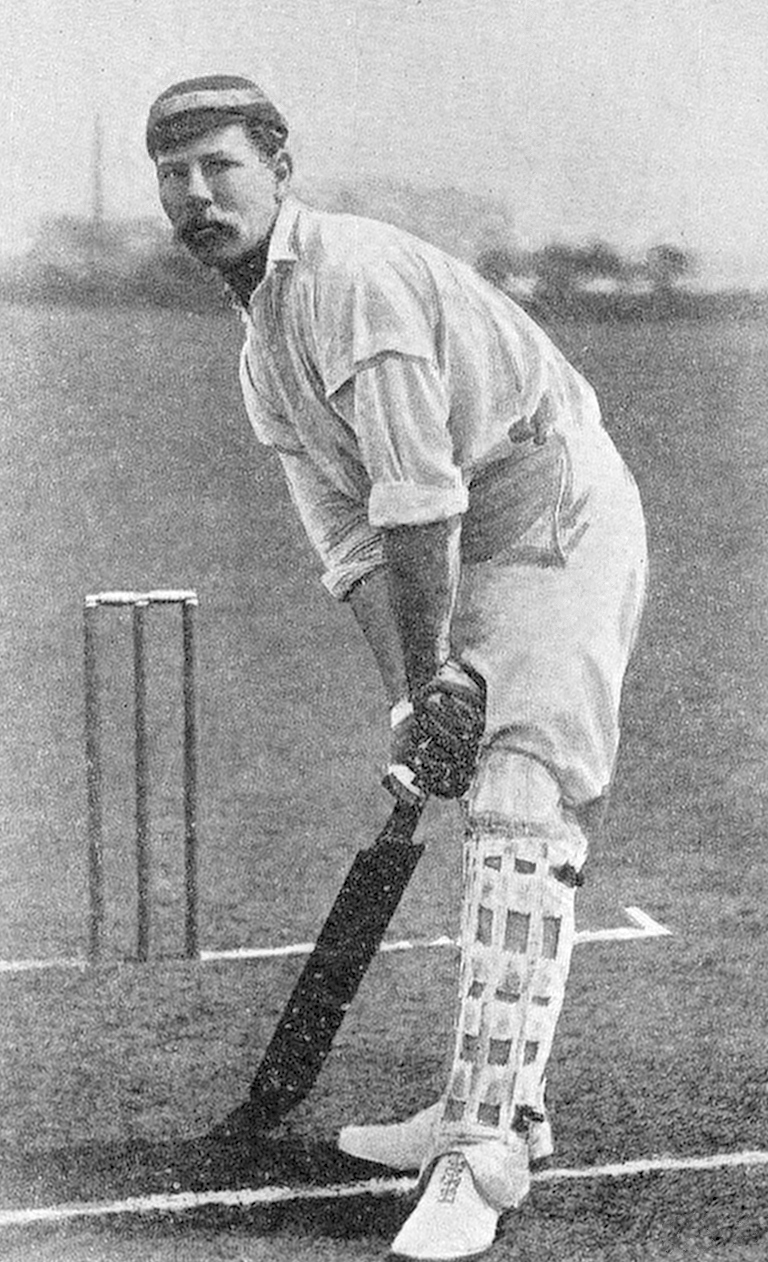 Scan of cricketer Charles Wright